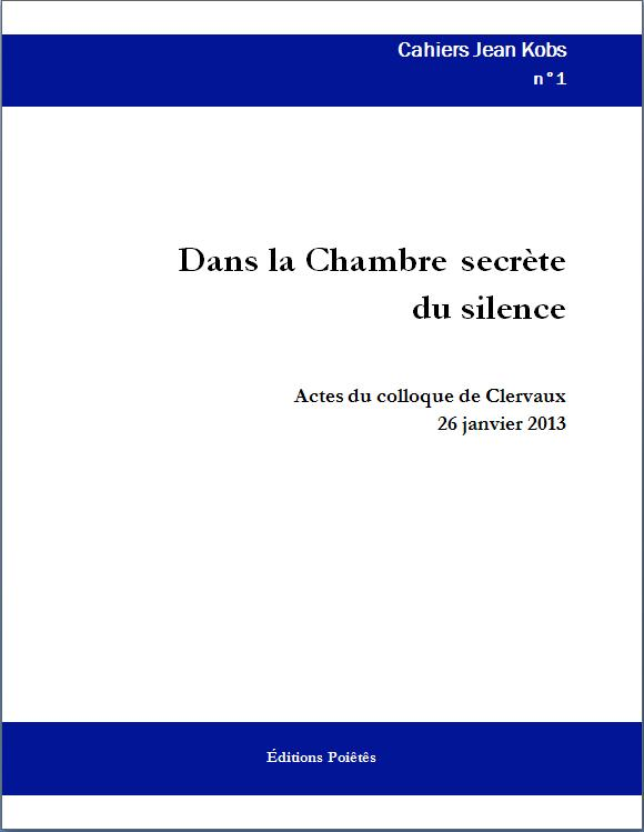 Cahiers Jean Kobs